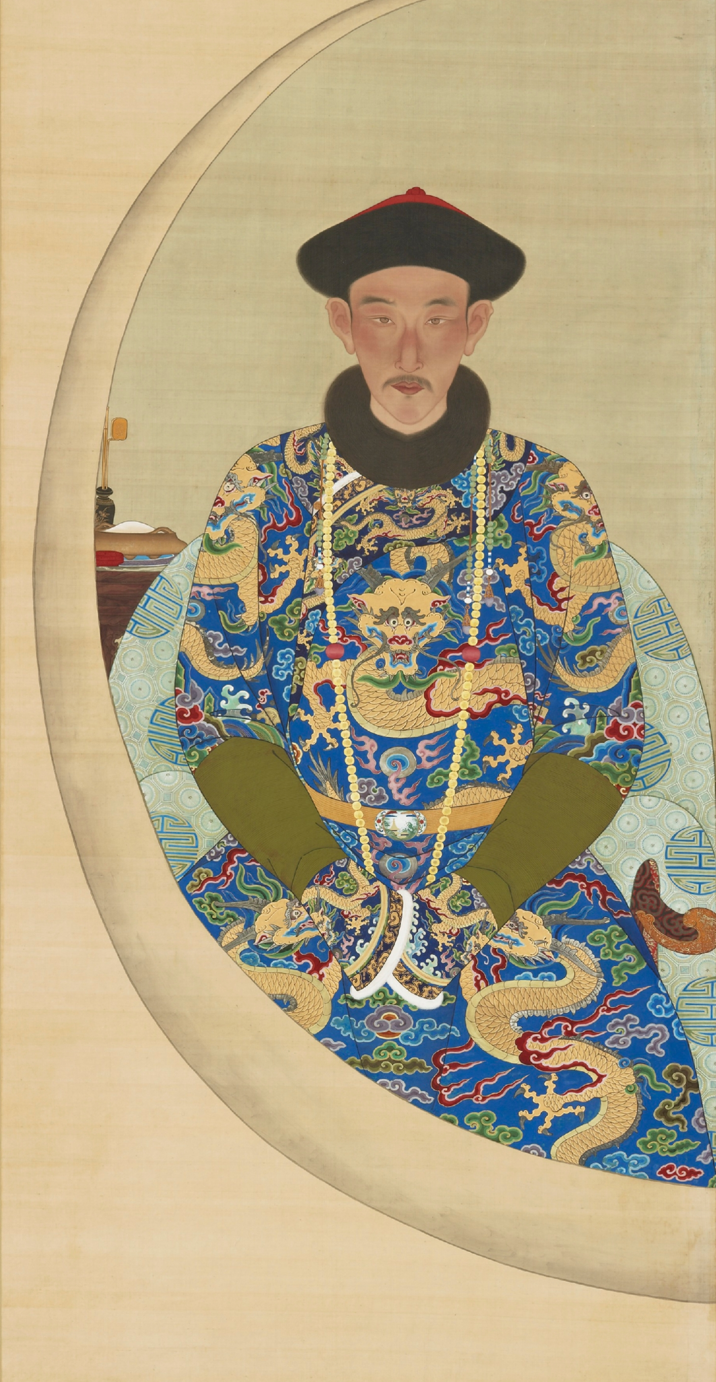 Portrait of Ying Xiang